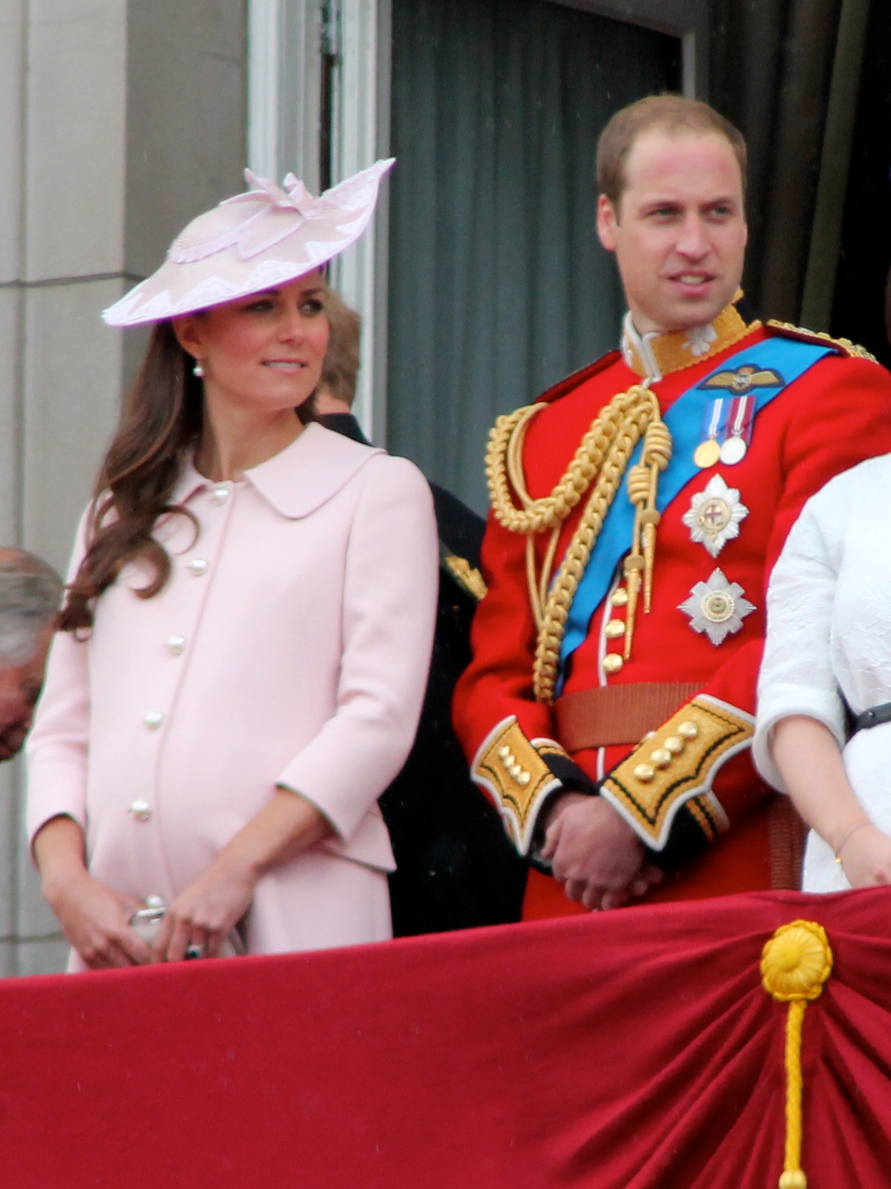 The Duke and Duchess of Cambridge on the balcony of Buckingham Palace, June 2013